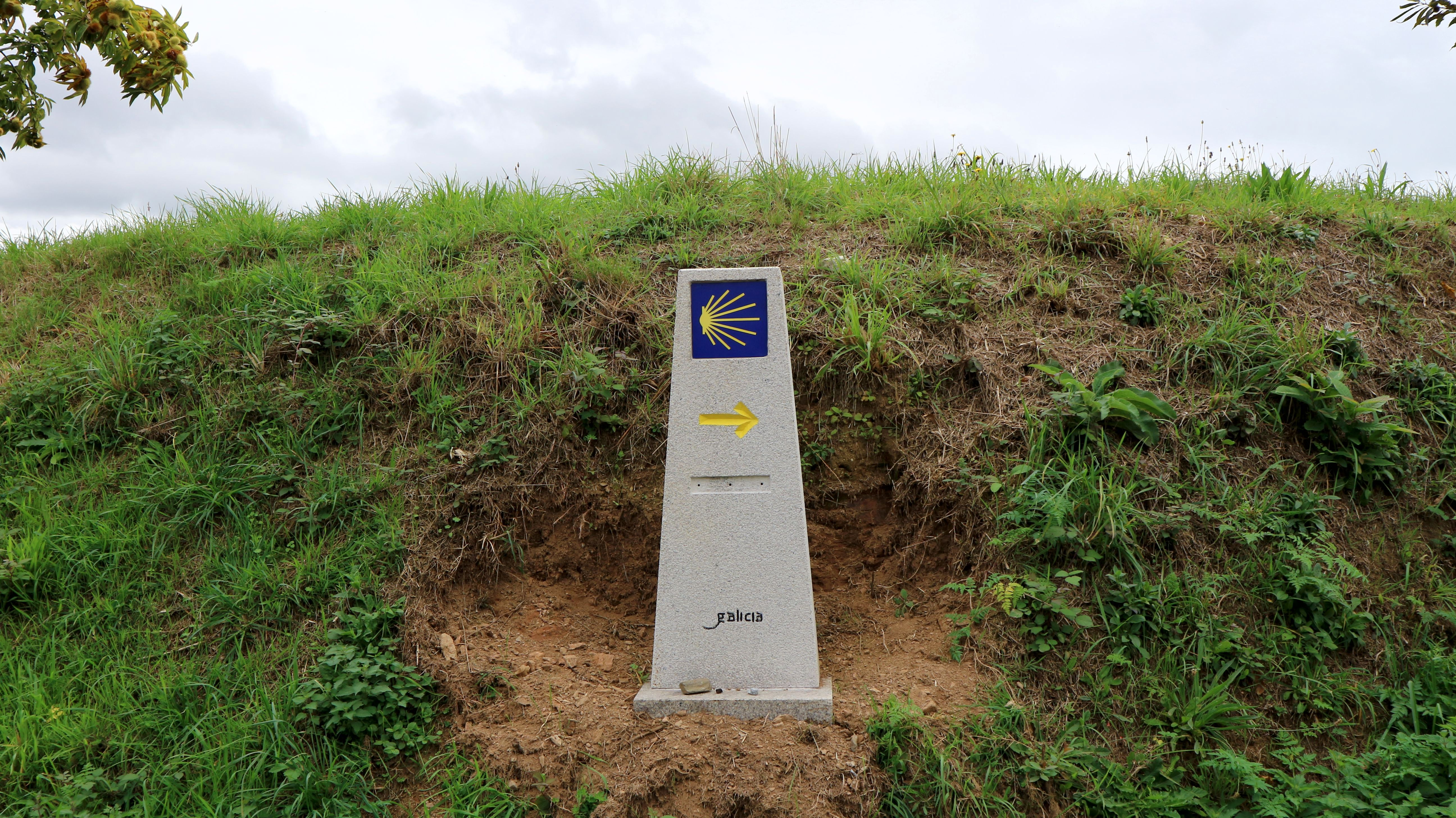 Indicador do camiño inglés de Santiago de Compostela en Bruma, Mesía (A Coruña).